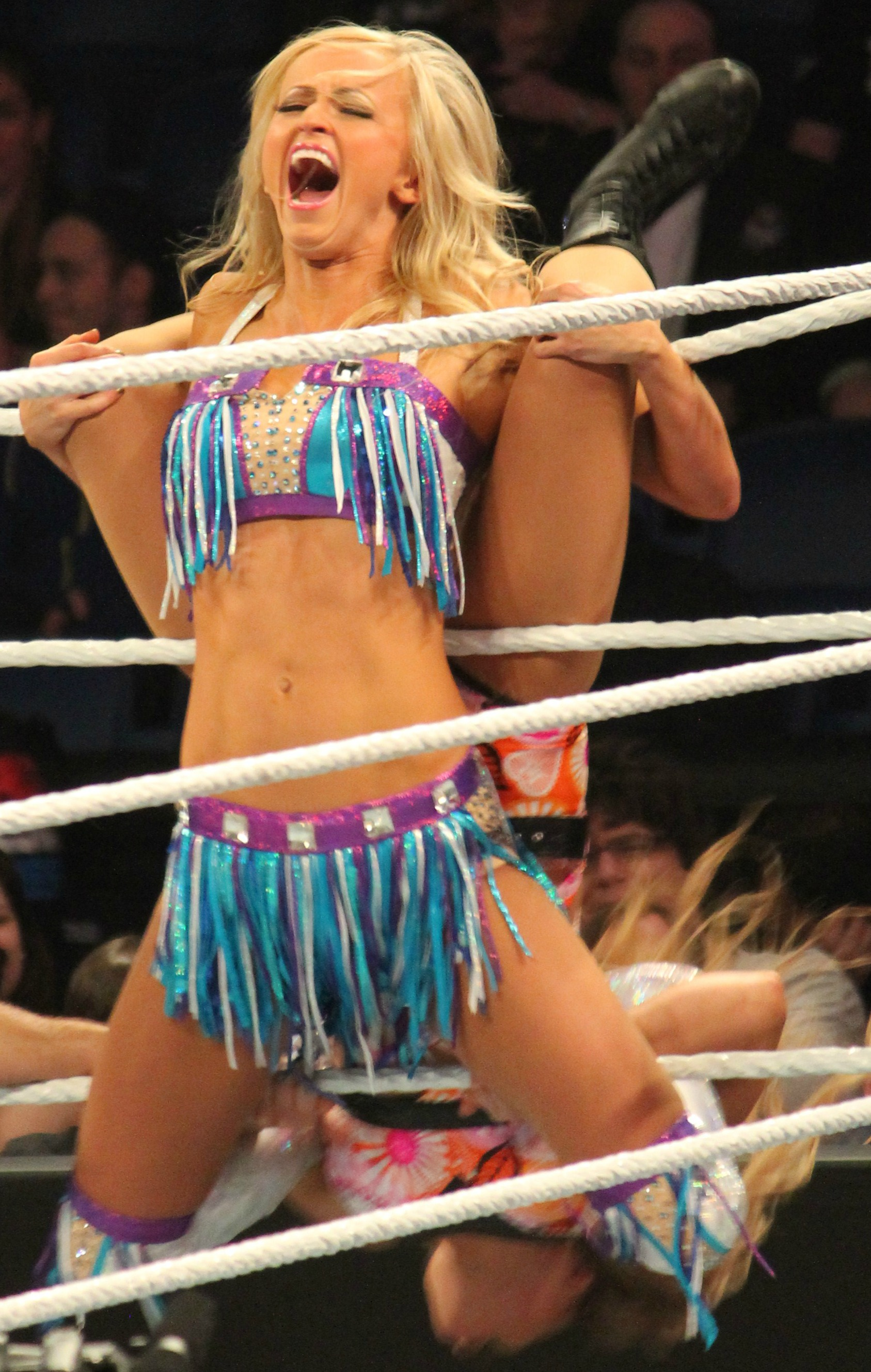 Emma performing her signature maneuver "Dil-Emma" on Summer Rae during a WWE Raw live show in April 2014.